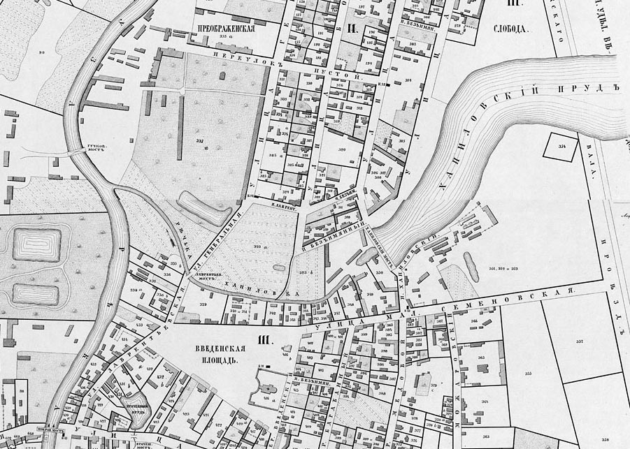 Moscow, 1853 map of Khapilovka River